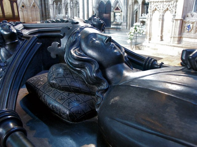 Interior of the Cathedral, Lincoln Effigy of Queen Eleanor.